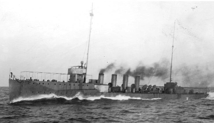 USS Balch (Destroyer # 50) underway at high speed, while running trials, probably on 22 February 1914. The original image was printed on postal card ("AZO") stock bearing the name and address of John W. Dawson, Marine Photographer, 2209 Richmond St., Philadelphia, Pennsylvania.